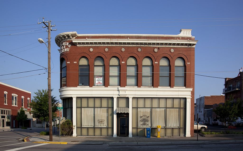 The Gadsden Times-News Building in Gadsden, Alabama, listed on the National Register of Historic Places.